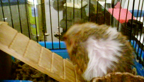 Hammy the hamster